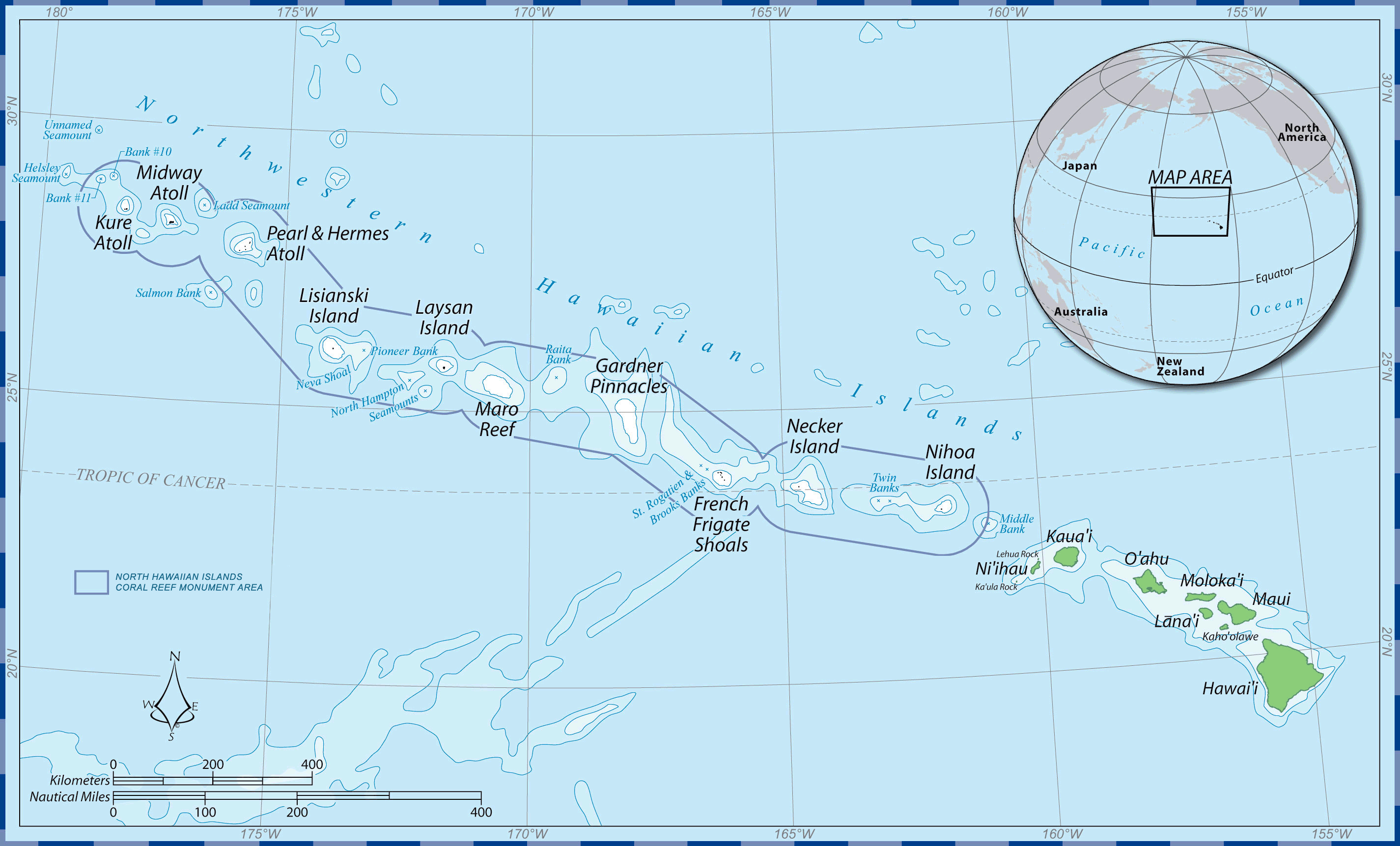 Map of Papahānaumokuākea Marine National Monument (formerly the Northwestern Hawaiian Islands National Monument) — of the Northwestern Hawaiian Islands, in Honolulu County, of the state of Hawaiʻi.